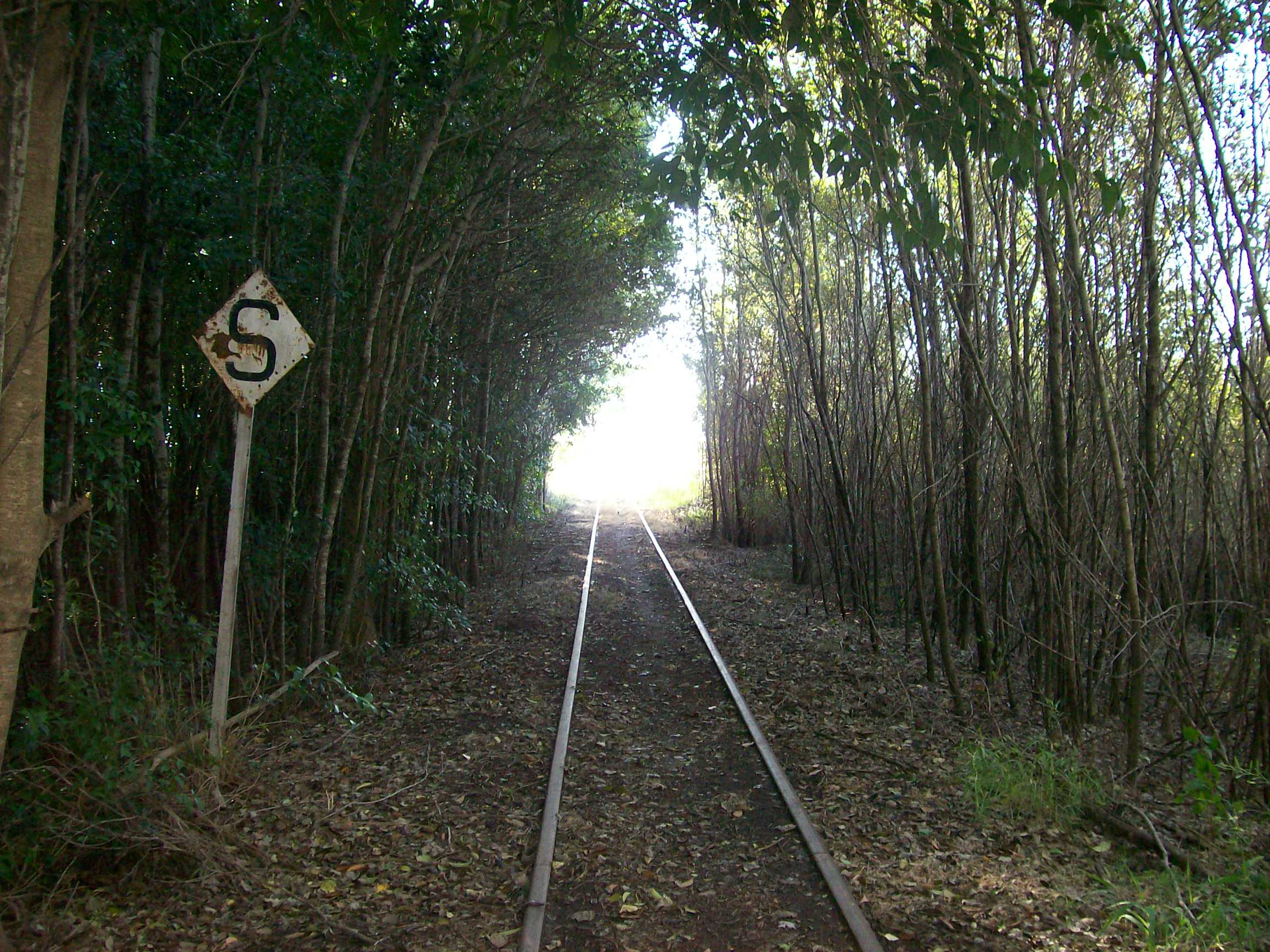 "whistle" signal in the CGBA railroad